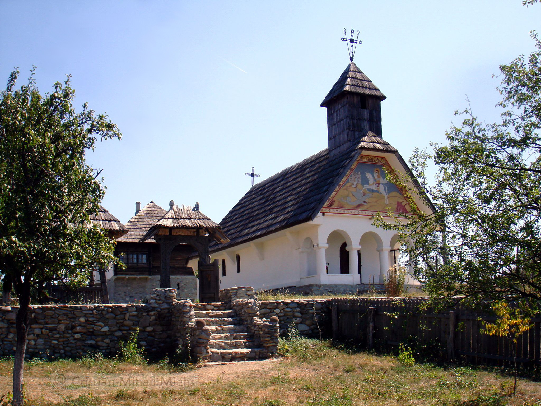 Church of the Gheorghe Tatarescu mansion in the Museum of Popular Architecture of Curtișoara, Gorj